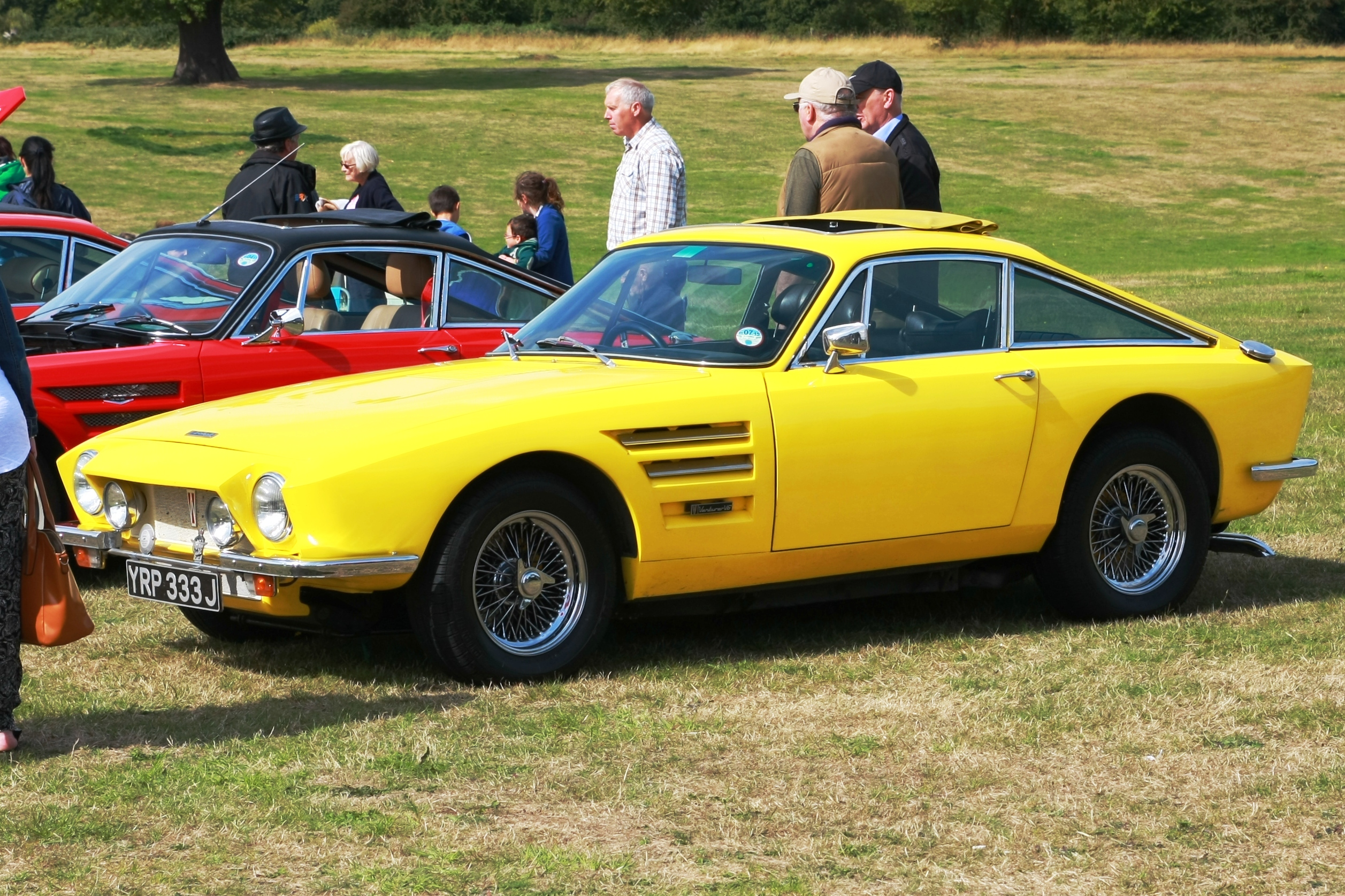 Trident Venturer V6 (1971) Tax office data: Vehicle make: Trident Venturer Date of first registration: July 1971 Year of manufacture: 1971 Cylinder capacity (cc): 2994 cc